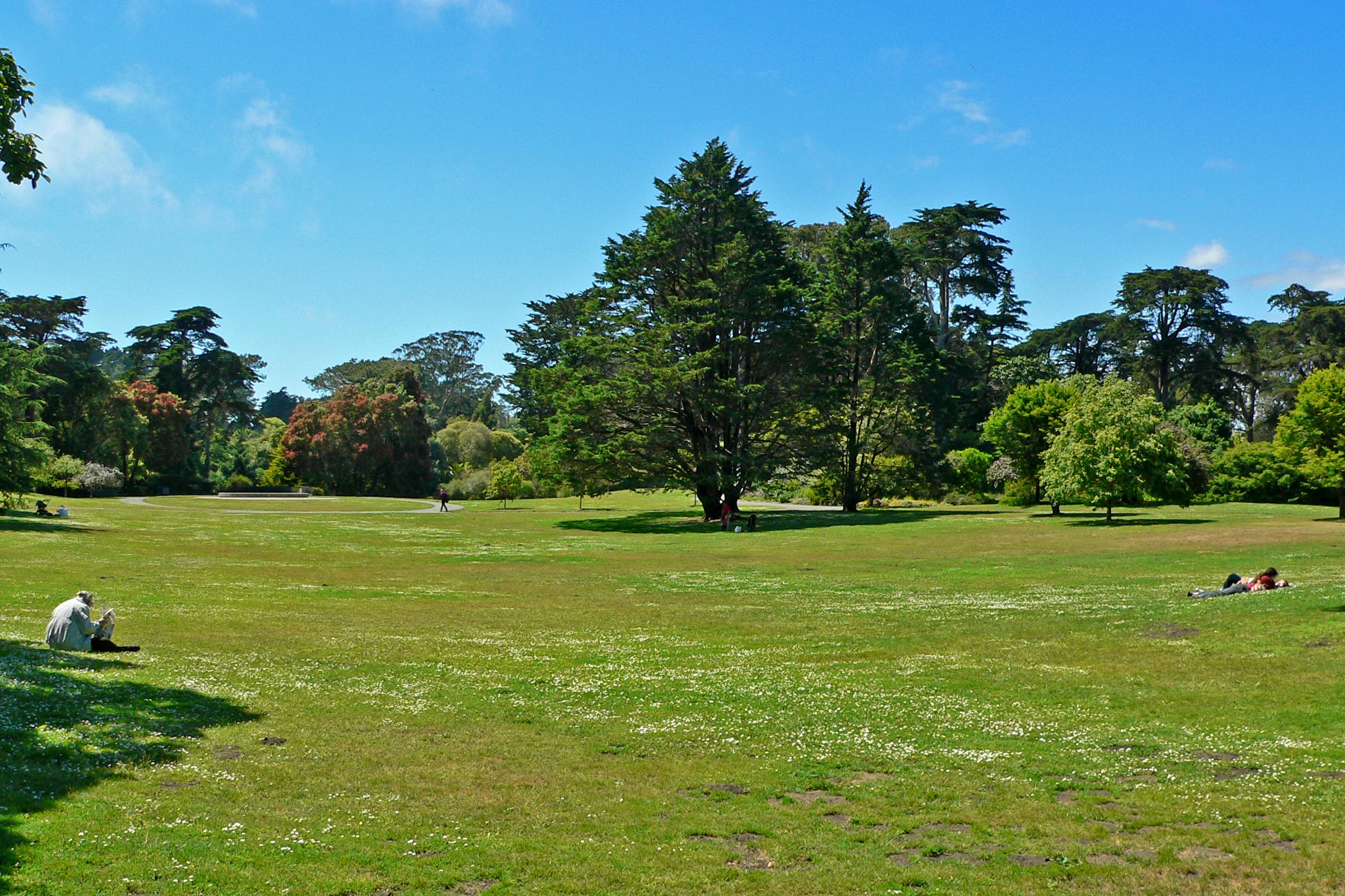 Photo of San Francisco Botanical Garden "Great Lawn"